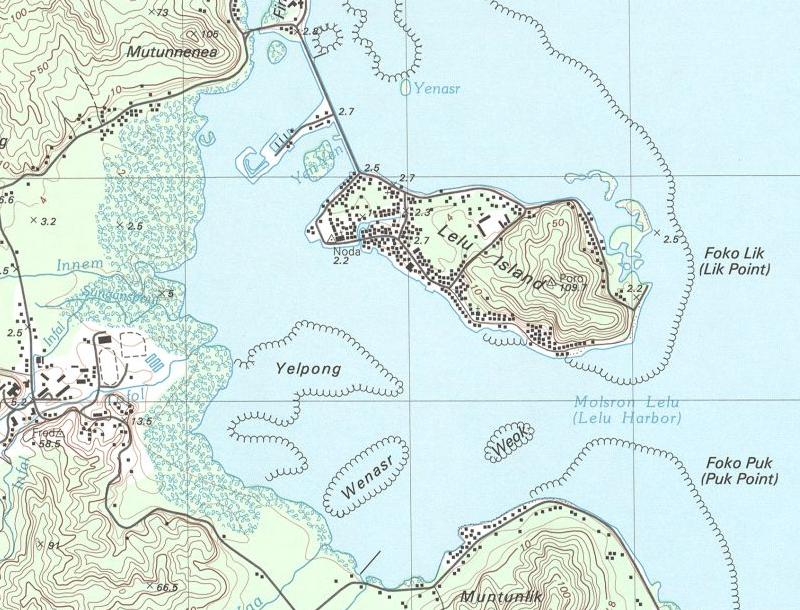 Island of Lelu, Kosrae, Micronesia, Pacific Ocean